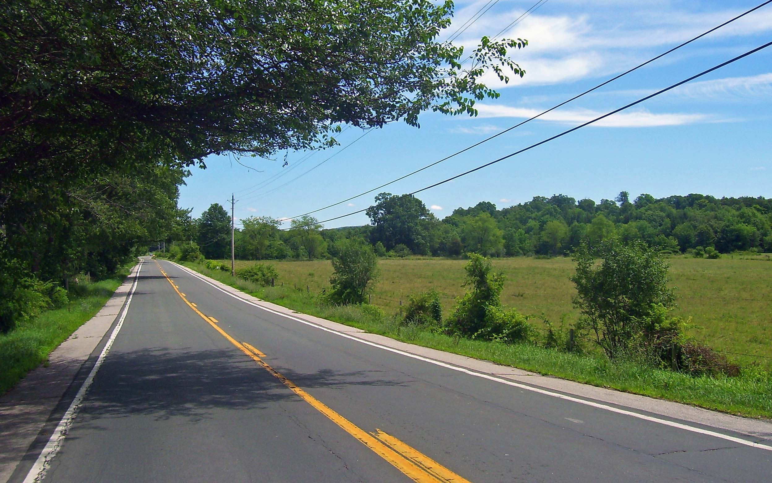 Pastoral stretch of NY 207 in the Town of Hamptonburgh, NY, USA